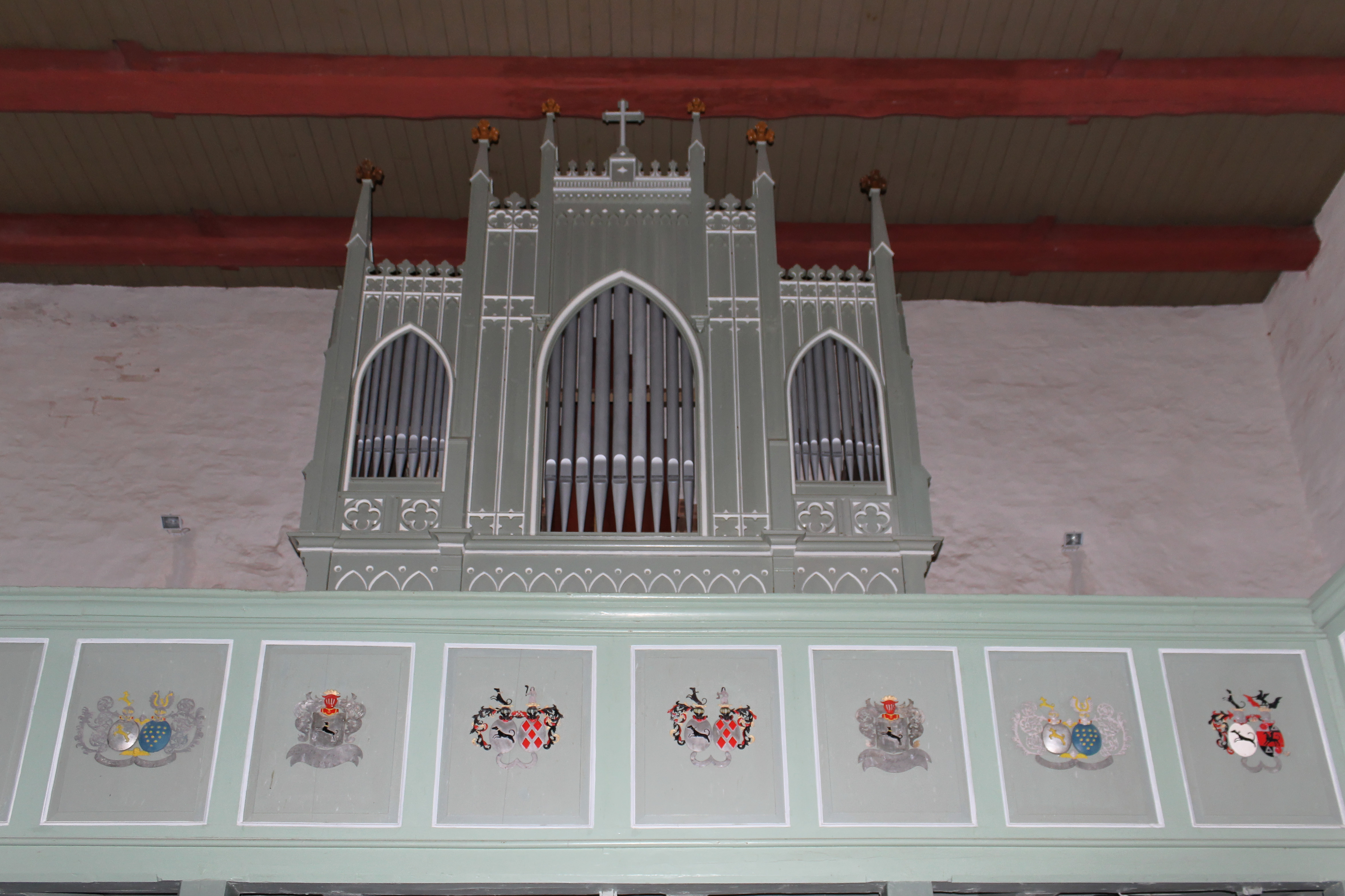 matroneum (westside) of the organ in the Church in Unter Bruez, Germany